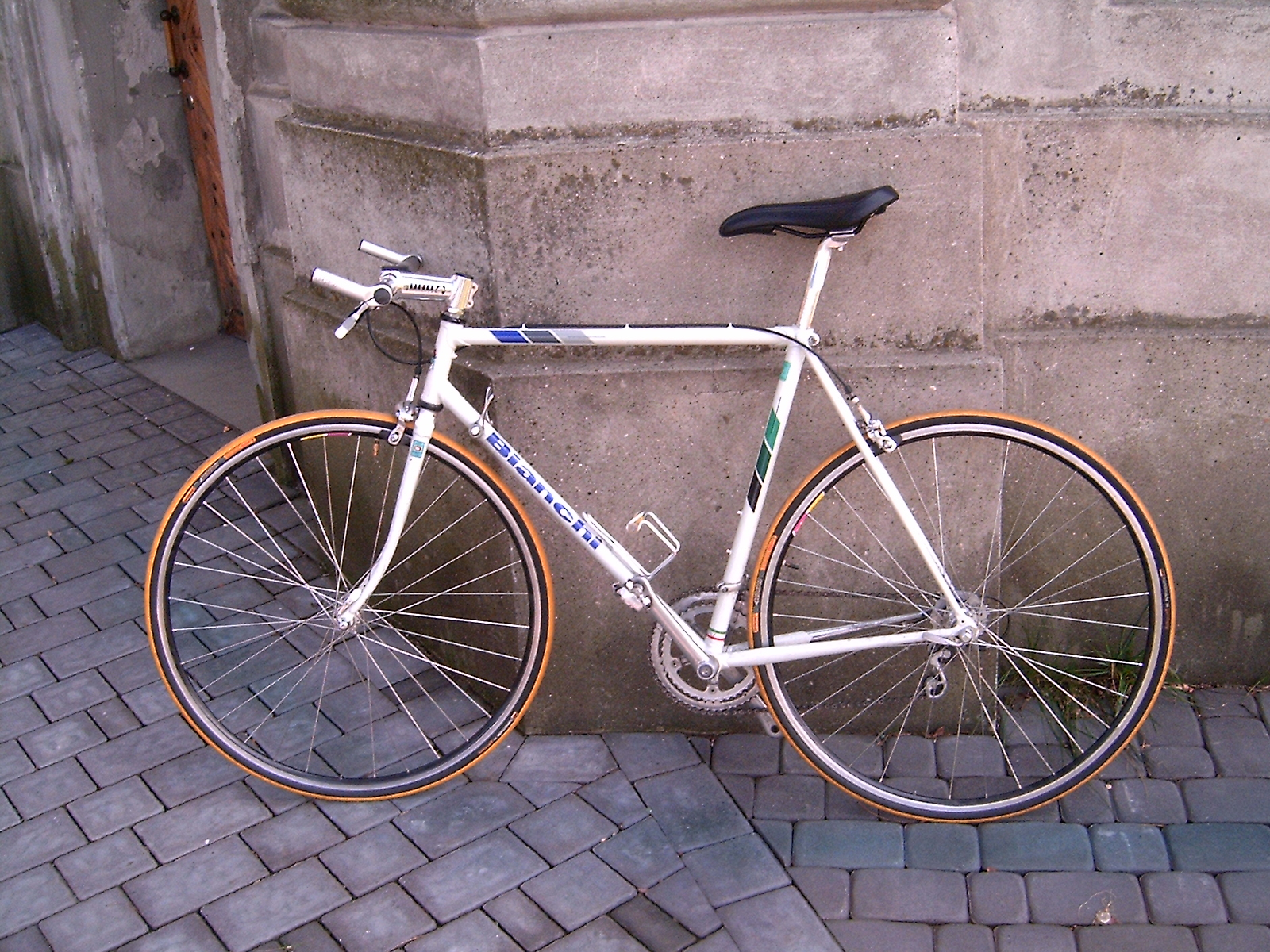 binachi bicycle